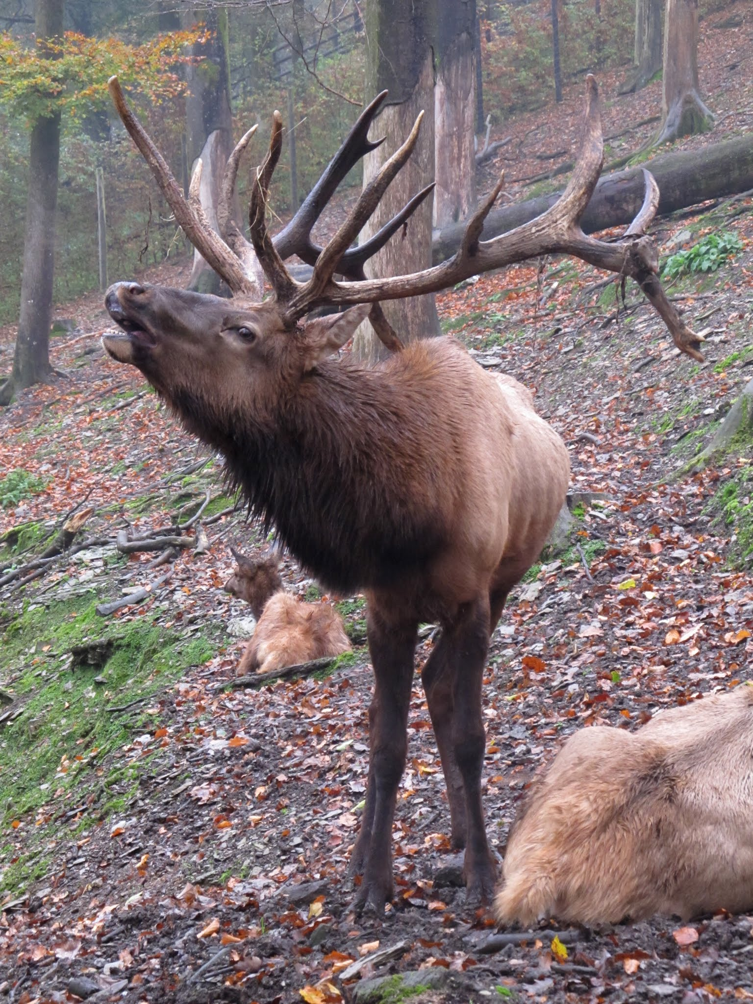 Wapiti in Parc Animalier de Bouillon